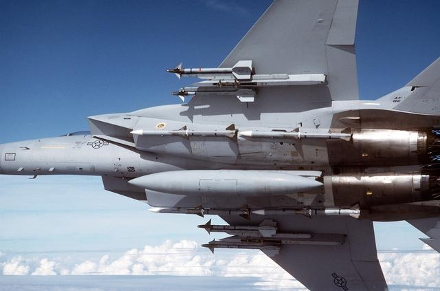 F-15C Eagle with 4 AIM-120B and 4 AIM-9M